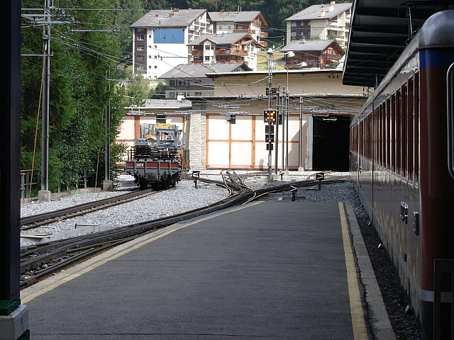 Gornergratbahn GGB / Zermatt